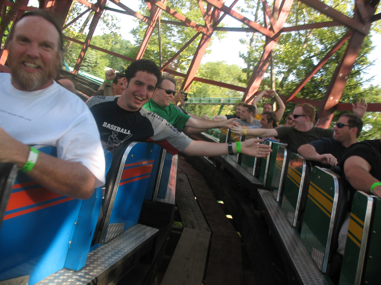 Handslapping on Racer. Taken August 2007 Taken with permission from Kennywood's public relations department